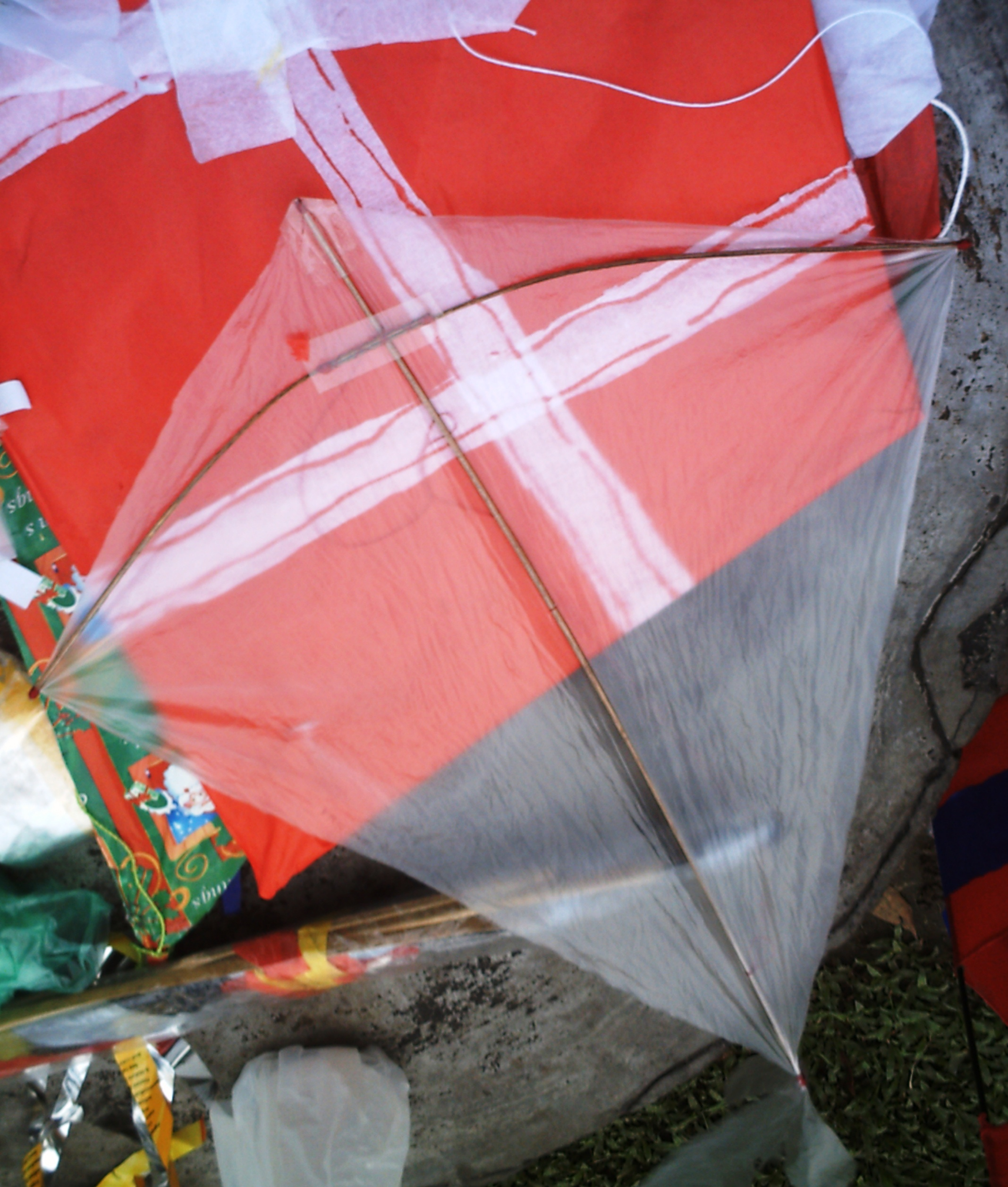 A Chapi-chpai kite.